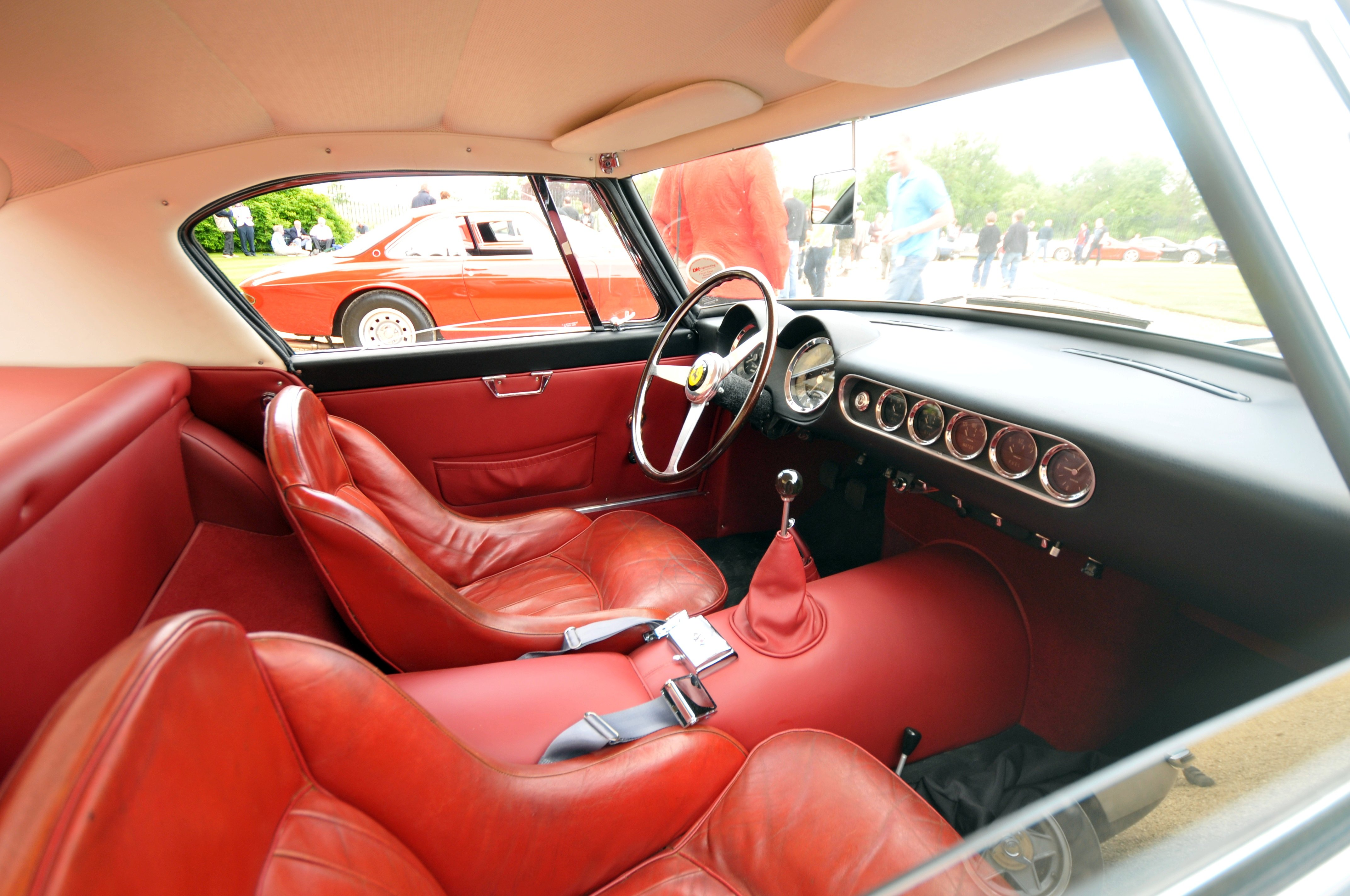 Interior of a Ferrari 250 GT SWB, based on other images in the Flickr stream, this has license "SWB 250", which has been on display at the 2014 NEC Birmingham show.[1]